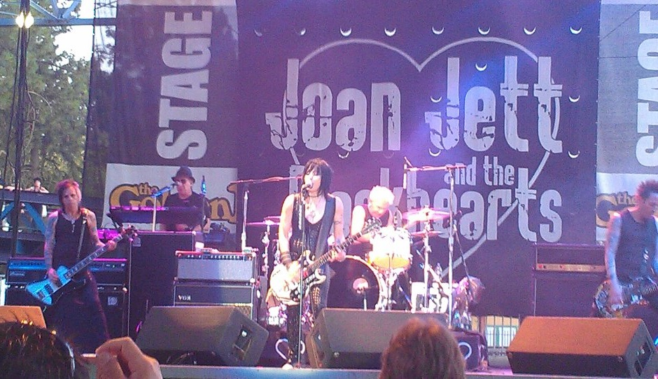 Joan Jett and the Blackhearts performing at the California State Fair on July 27, 2012.